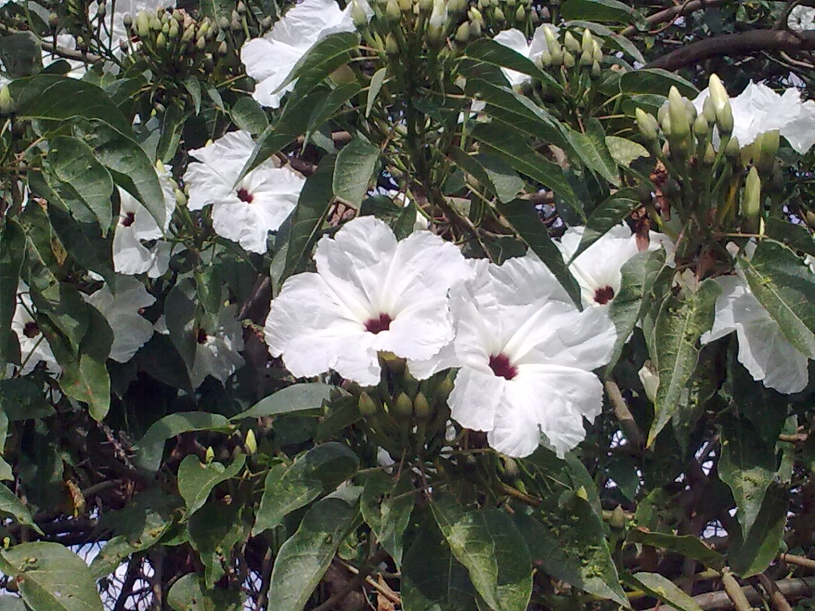 Ipomoea arborescence flowers, Monte Alban, Oaxaca, Mexico